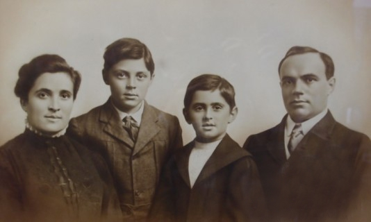 Isidore Horween and family, including Ralph Horween and Arnold Horween. The father and sons worked in the Horween Leather Company.